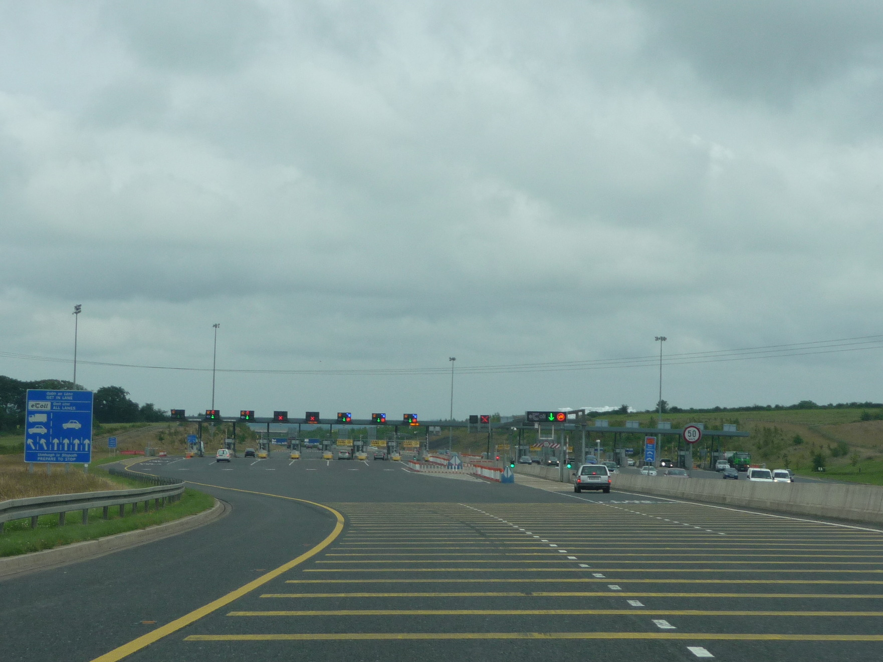 Approaching the M4 Toll Plaza (Eastbound).